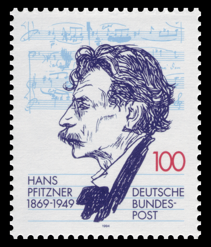 125th day of birth of Hans Pfitzner (1869—1949)